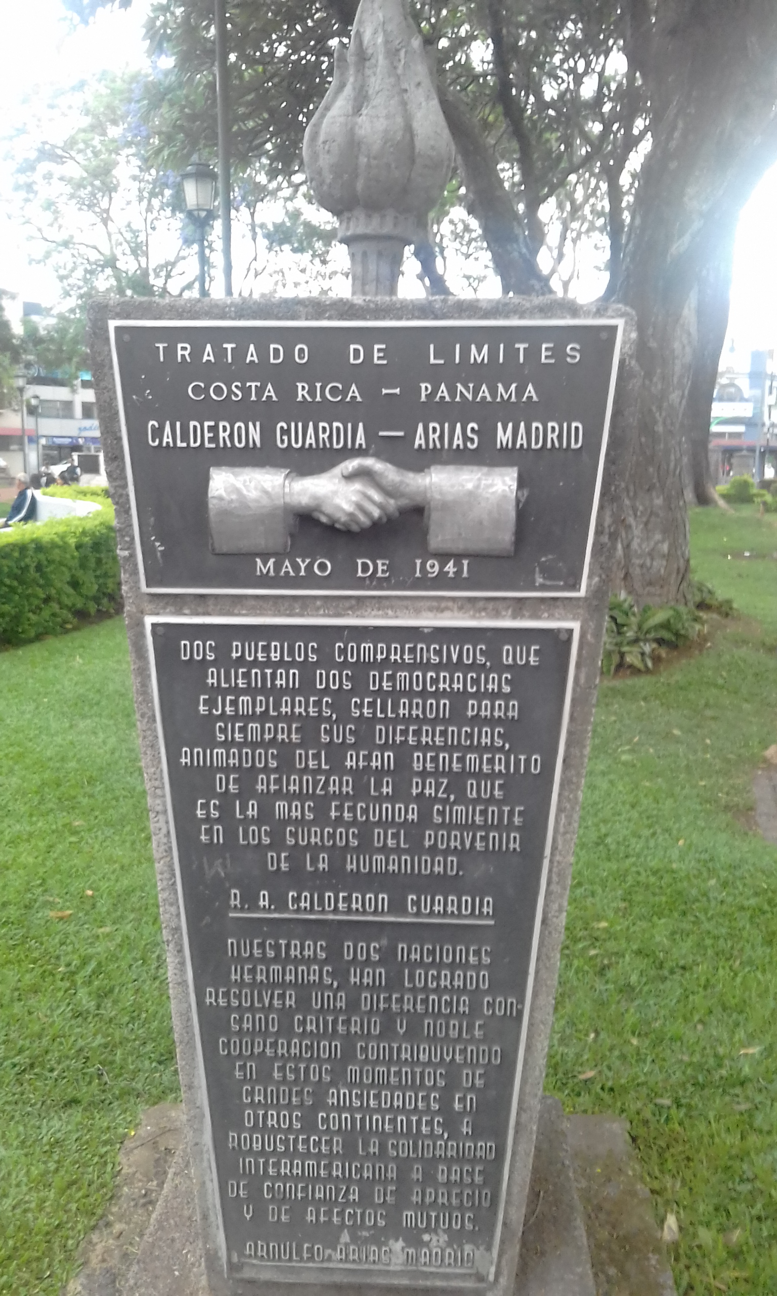 Estatua conmemorativa tratado Arias-Calderón, Parque Morazan